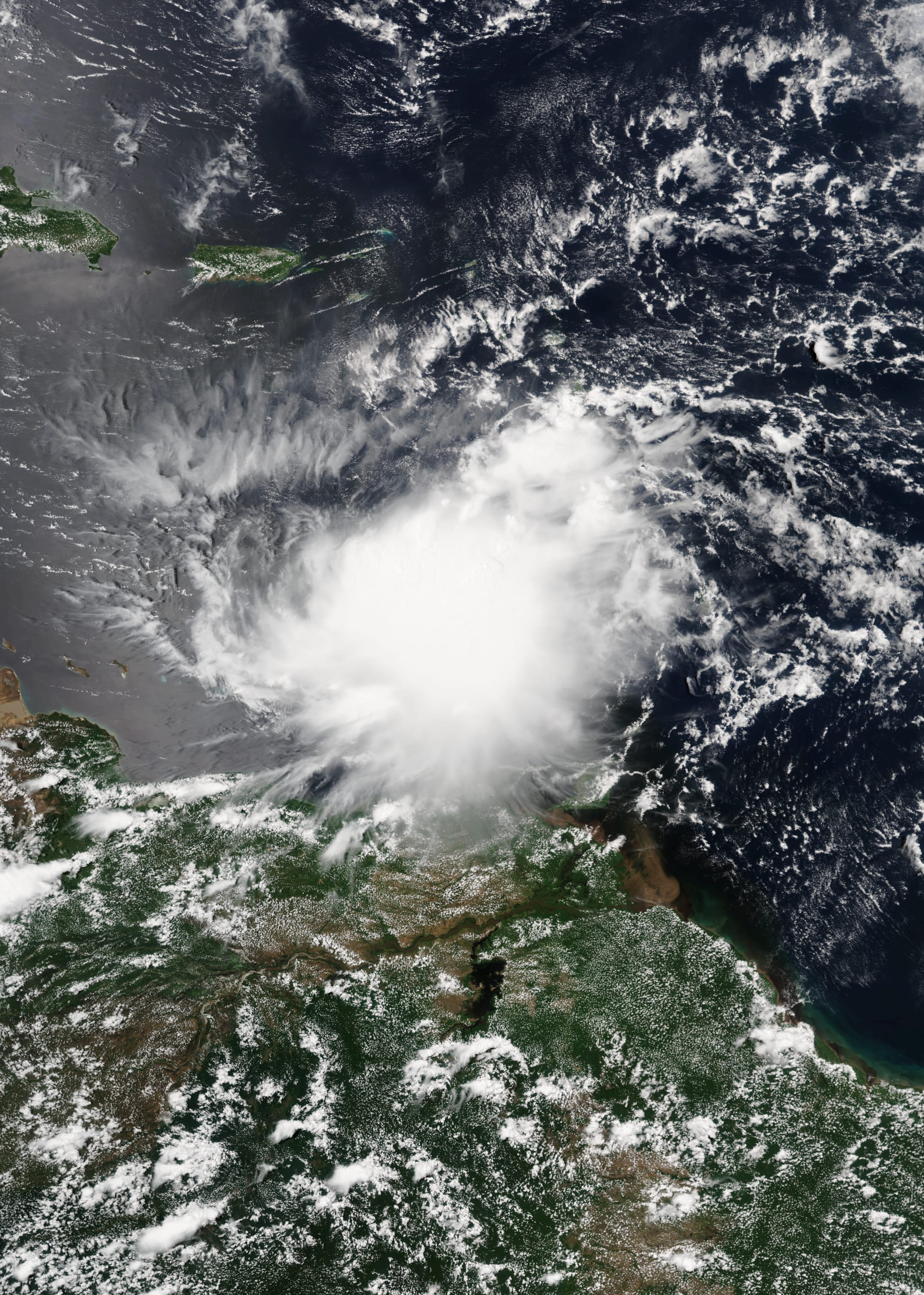 Tropical Storm Harvey (09L) north of Venezuela on August 18, 2017